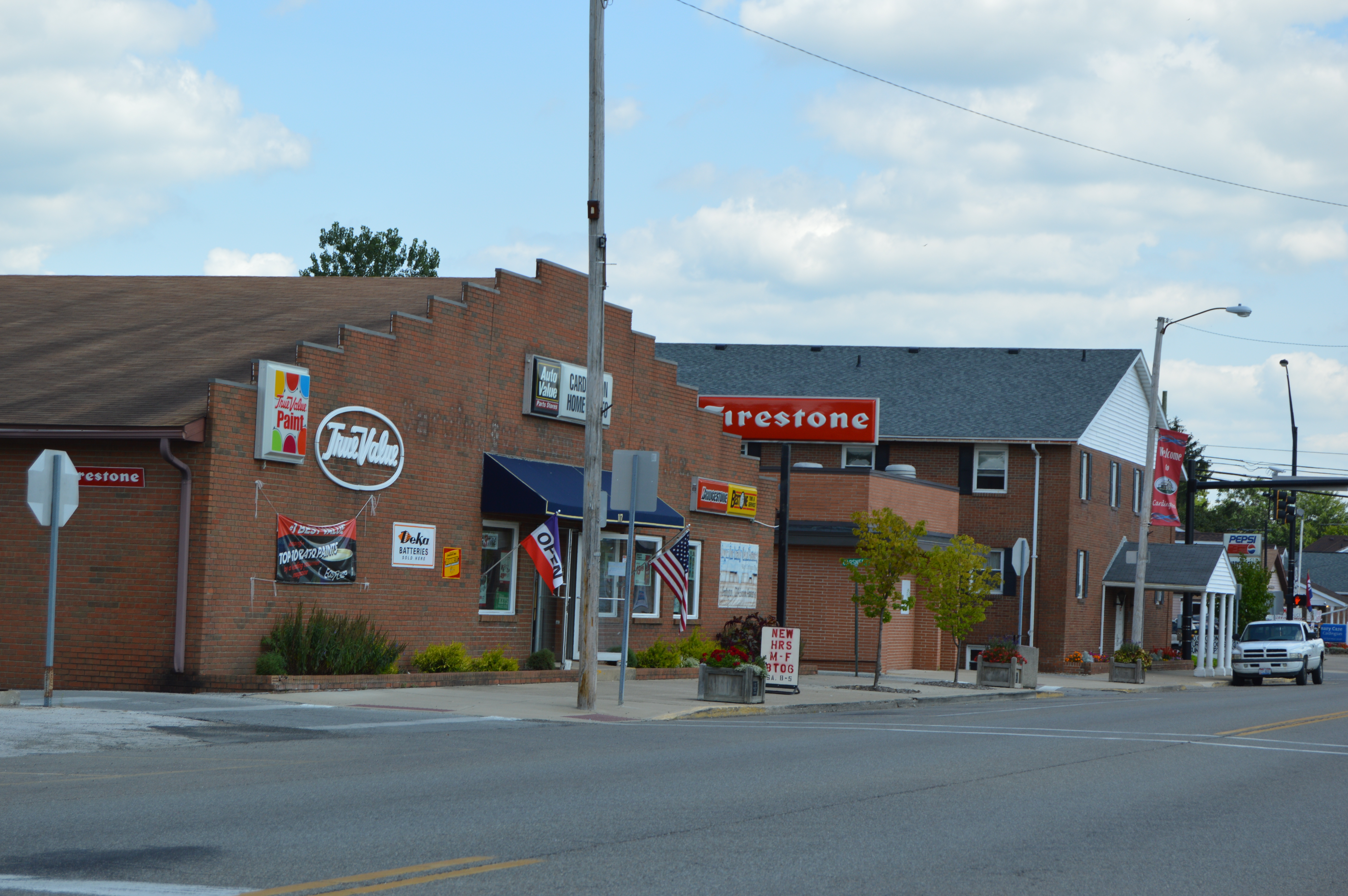 Buildings on the northern side of Main Street (U.S. Route 42) directly east of the railroad in central Cardington, Ohio, United States.